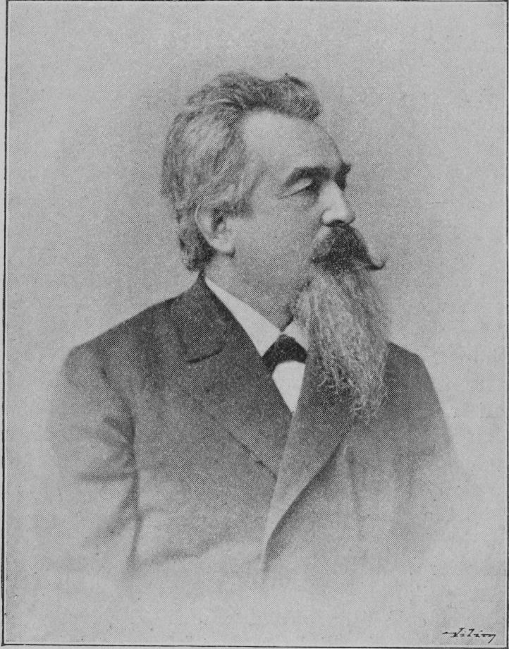 Portrait of František Pivoda (1824 - 1898), Czech teacher of music and musical critic.